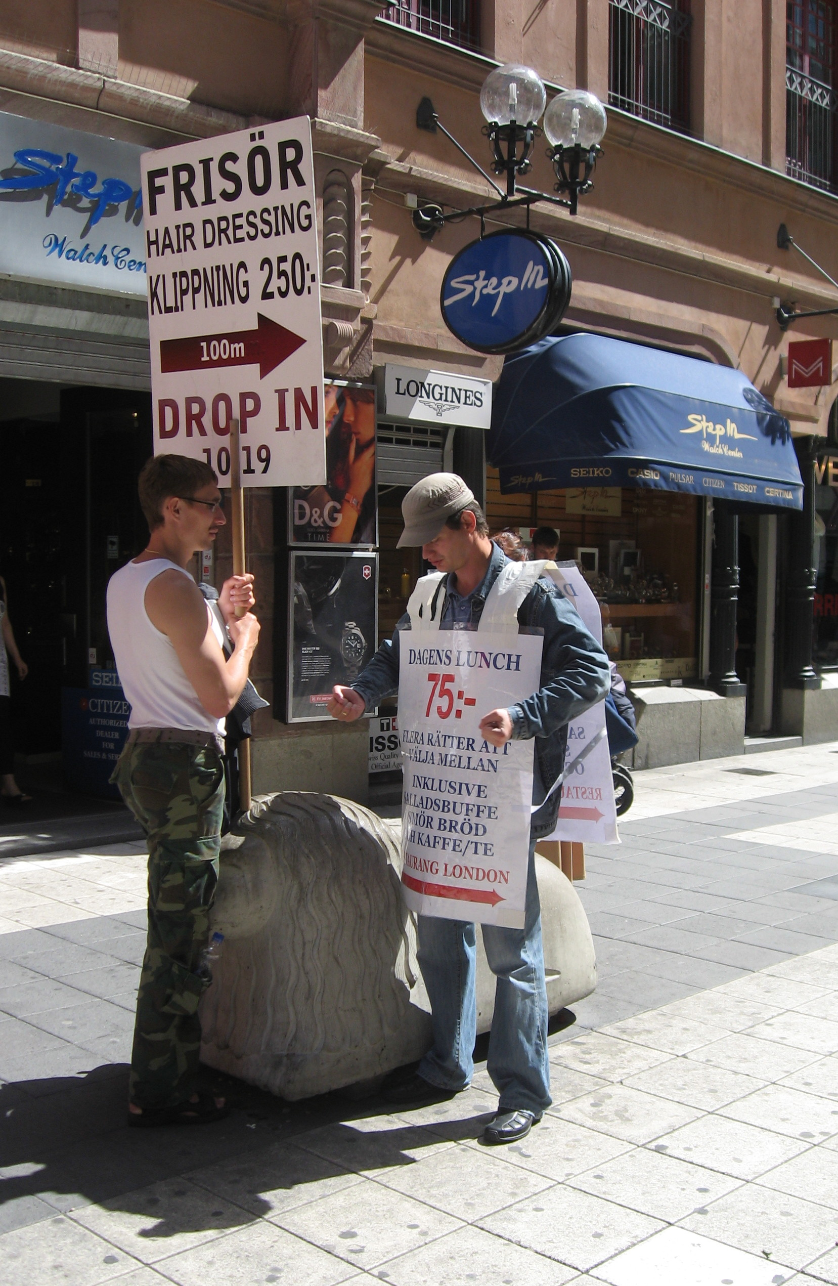 Two human billboards in Drottninggatan, Stockholm. The person to the left holds a sign advertising for a haircut. The person to the right is wearing a sandwich board advertising for a lunch buffet at a nearby restaurant at Bryggersgatan. See annotations for detailed billboard texts and translations. As I recall, the two men were engaged in a conversation.